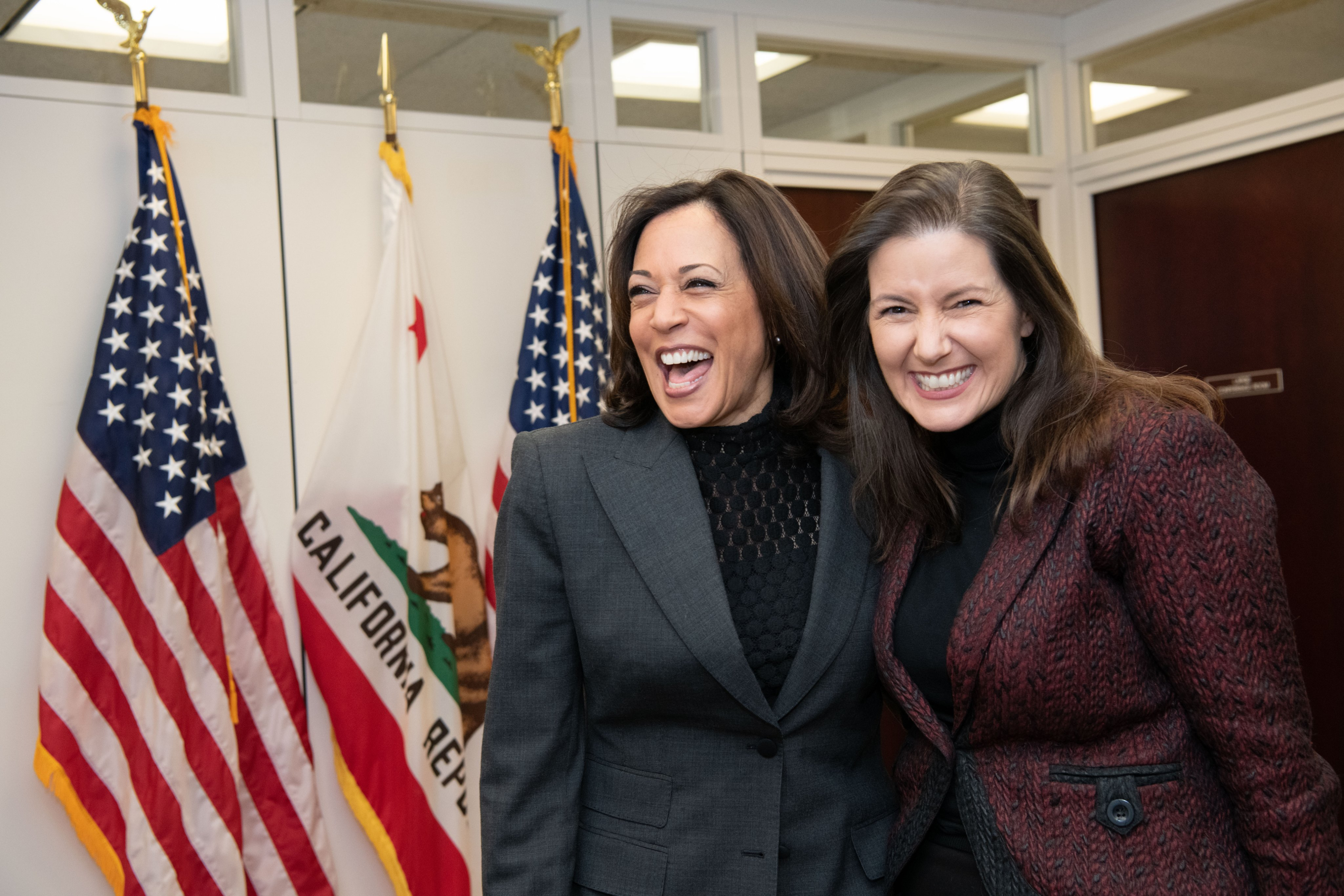 Always great to catch up with some dear friends and mayors from California. Our mayors are at the forefront of every issue we’re working on in DC—and I know these three are fierce leaders for their communities.